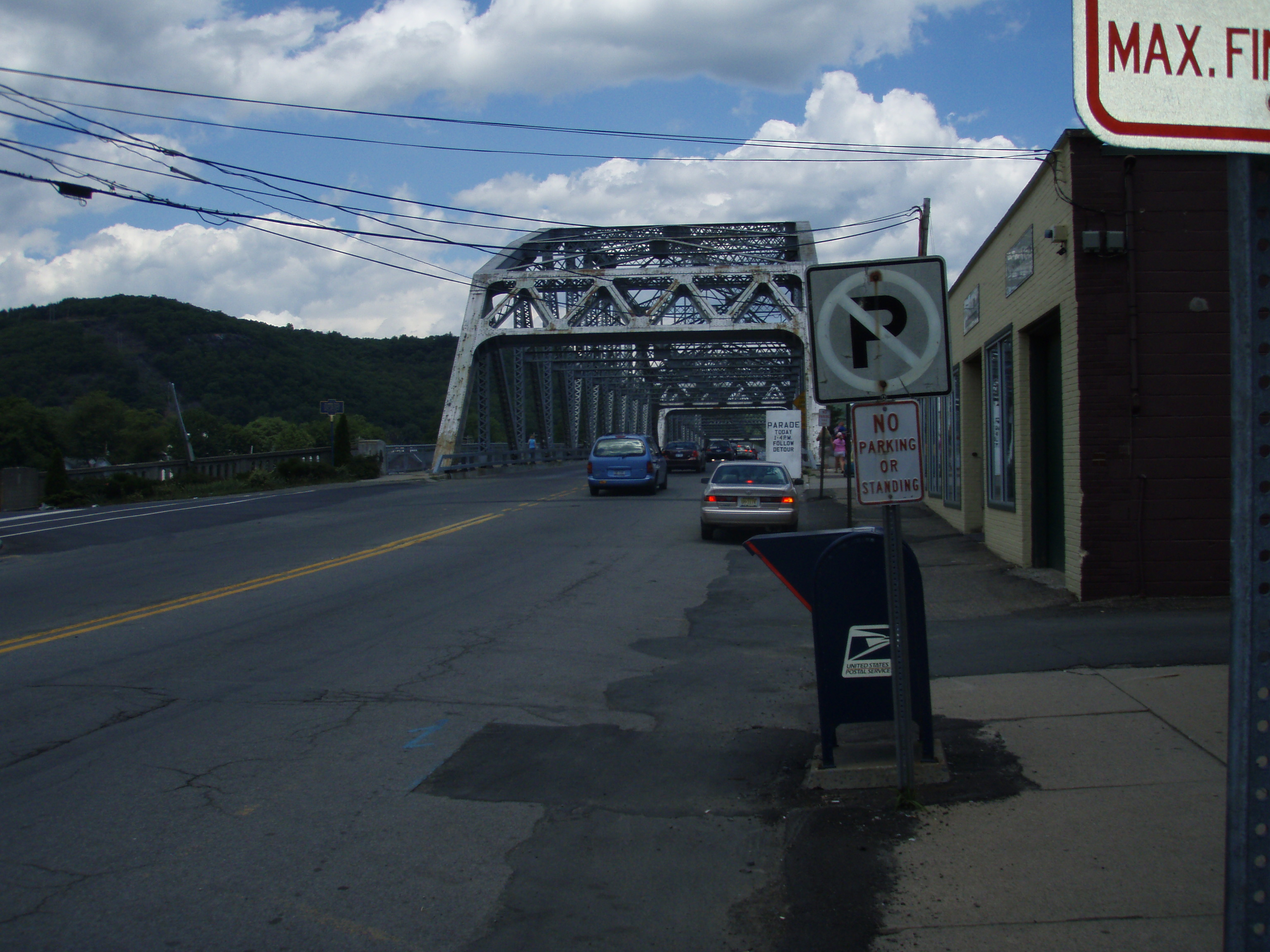 Route 6 and 209 (concurrent) in Matamoras, Pennsylvania, facing the bridge to Port Jervis, New York. Picture taken by NHRHS2010 on July 14, 2007 as part of his longest bike ride ever.